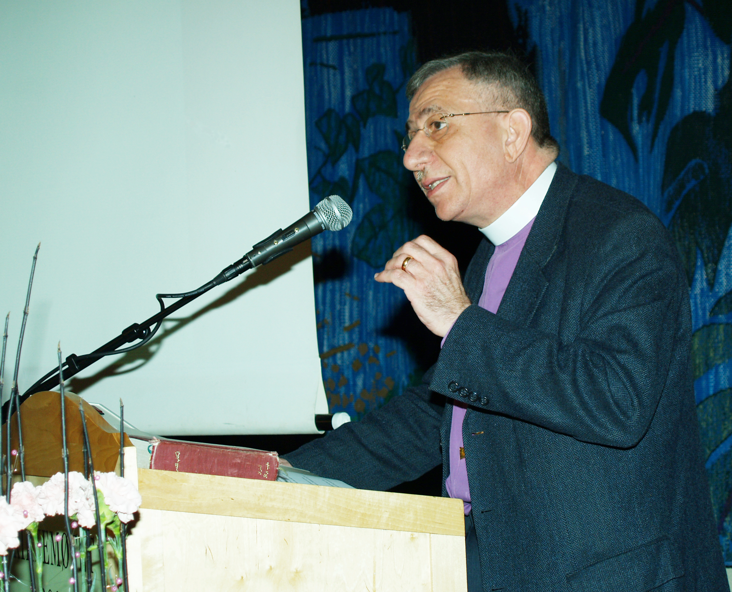 Munib Younan, the Evangelical Lutheran Church Bishop of Palestine and Jordan since 1998.